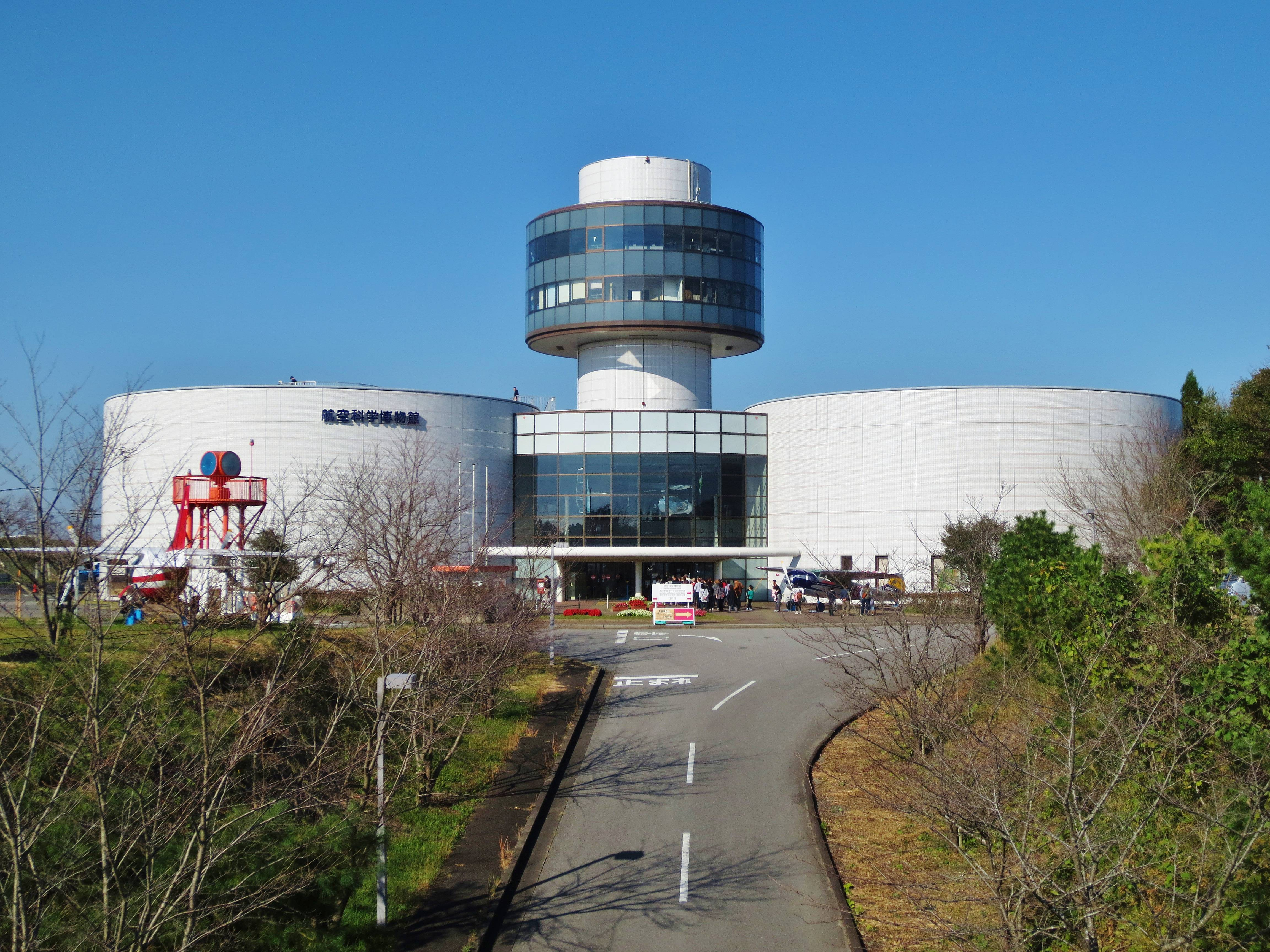 Museum of Aeronautical Sciences.